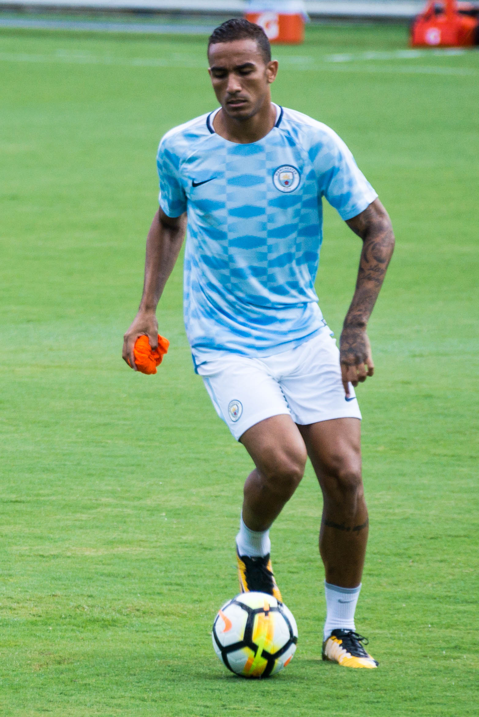 Manchester City vs Tottenham Hotspur at Nissan Stadium in Nashville, TN